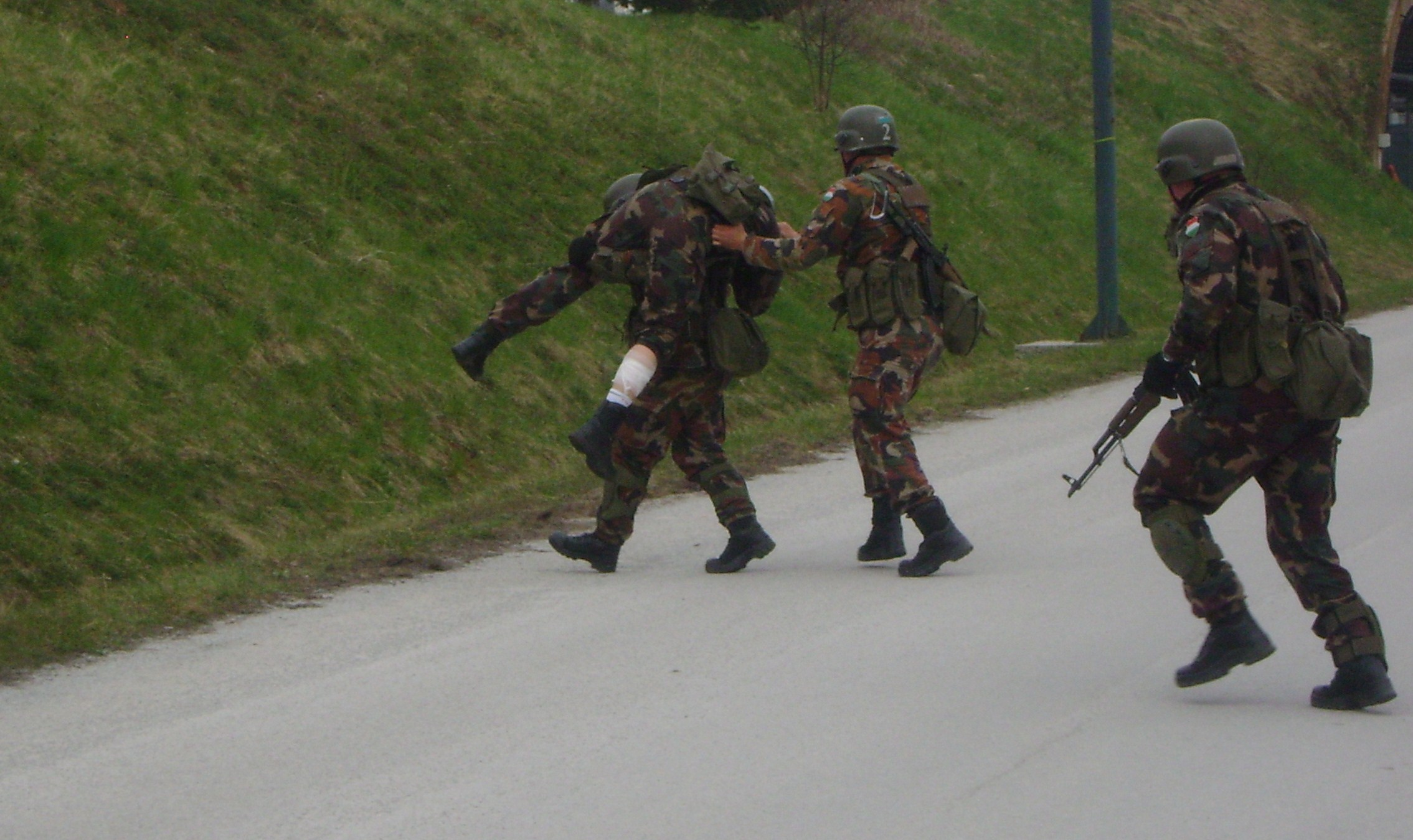 Hungarian Soldiers at a Medical Training